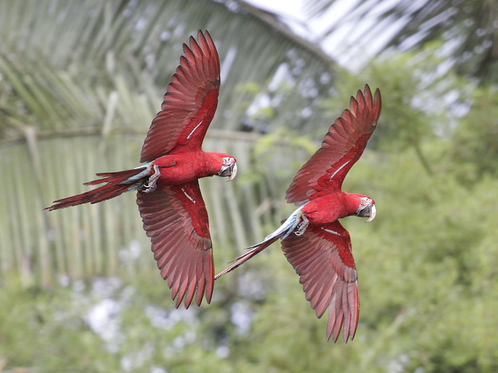 Two Red-and-green Macaws (also known as the Green-winged Macaws) flying at Manu National Park, Peru.